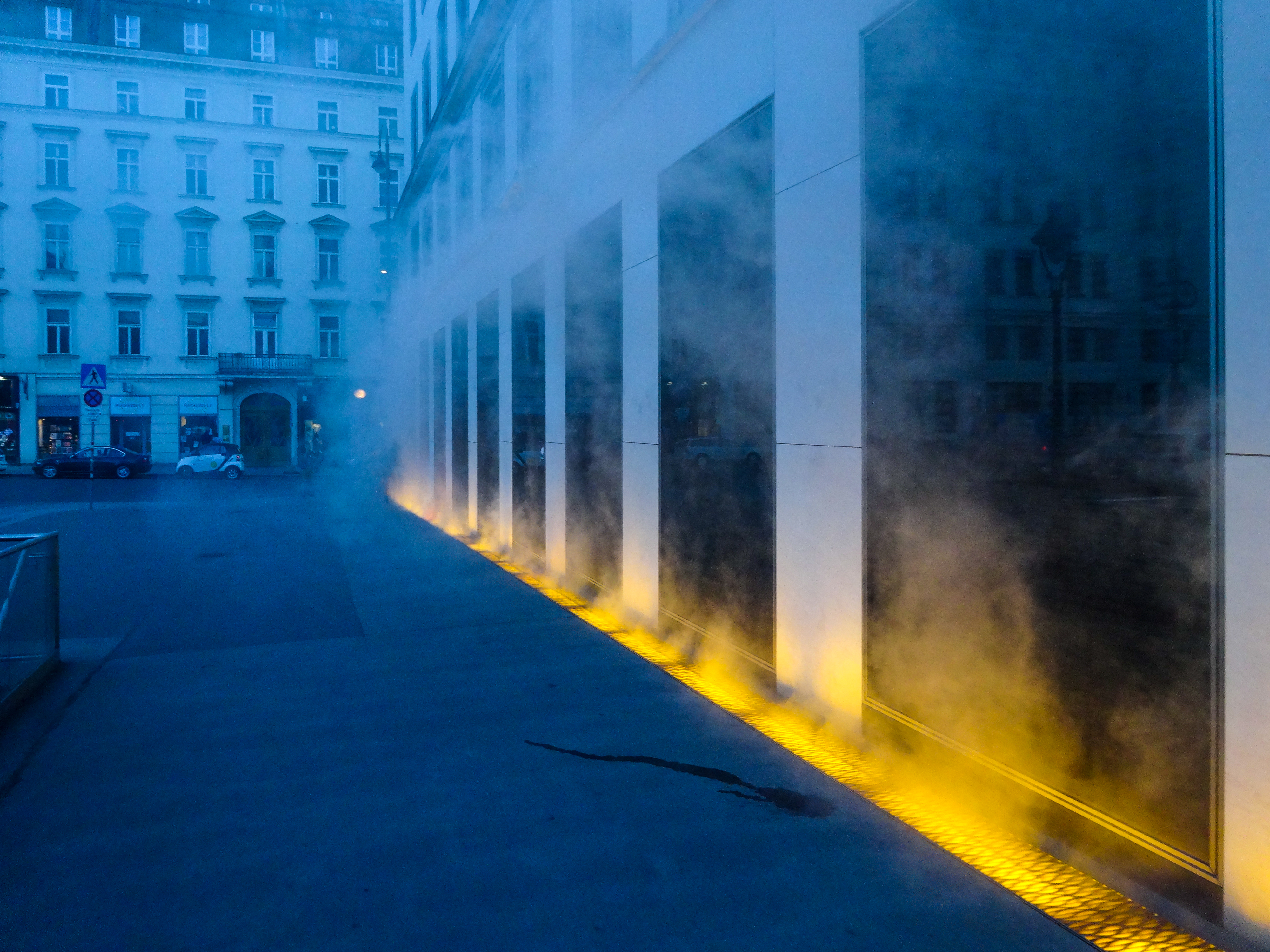 "Yellow fog" installation by Olafur Eliasson at the Am Hof square in Vienna, Austria. June 2016